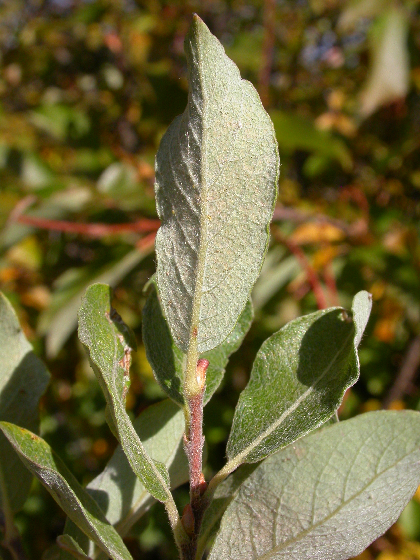 The purplish hairy twig tips and leaf undersurfaces that are whitish (glaucous) and prominently reticulate are characteristic of Bebb willow.